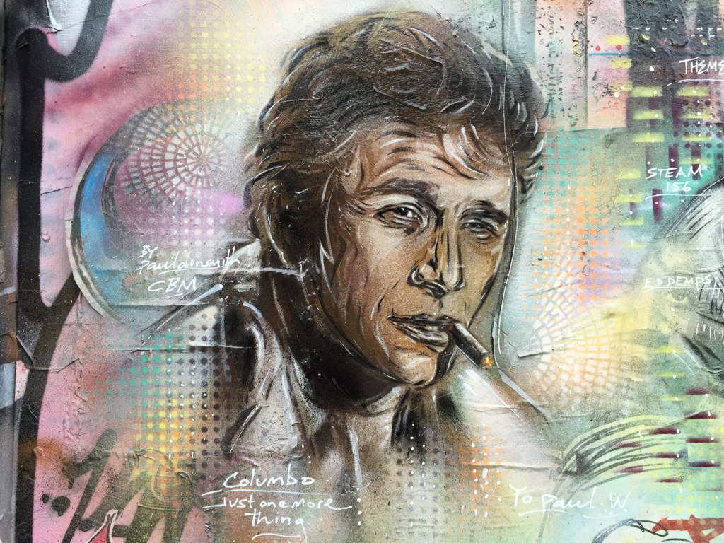 Street art depiction of Columbo Street art depiction of Columbo